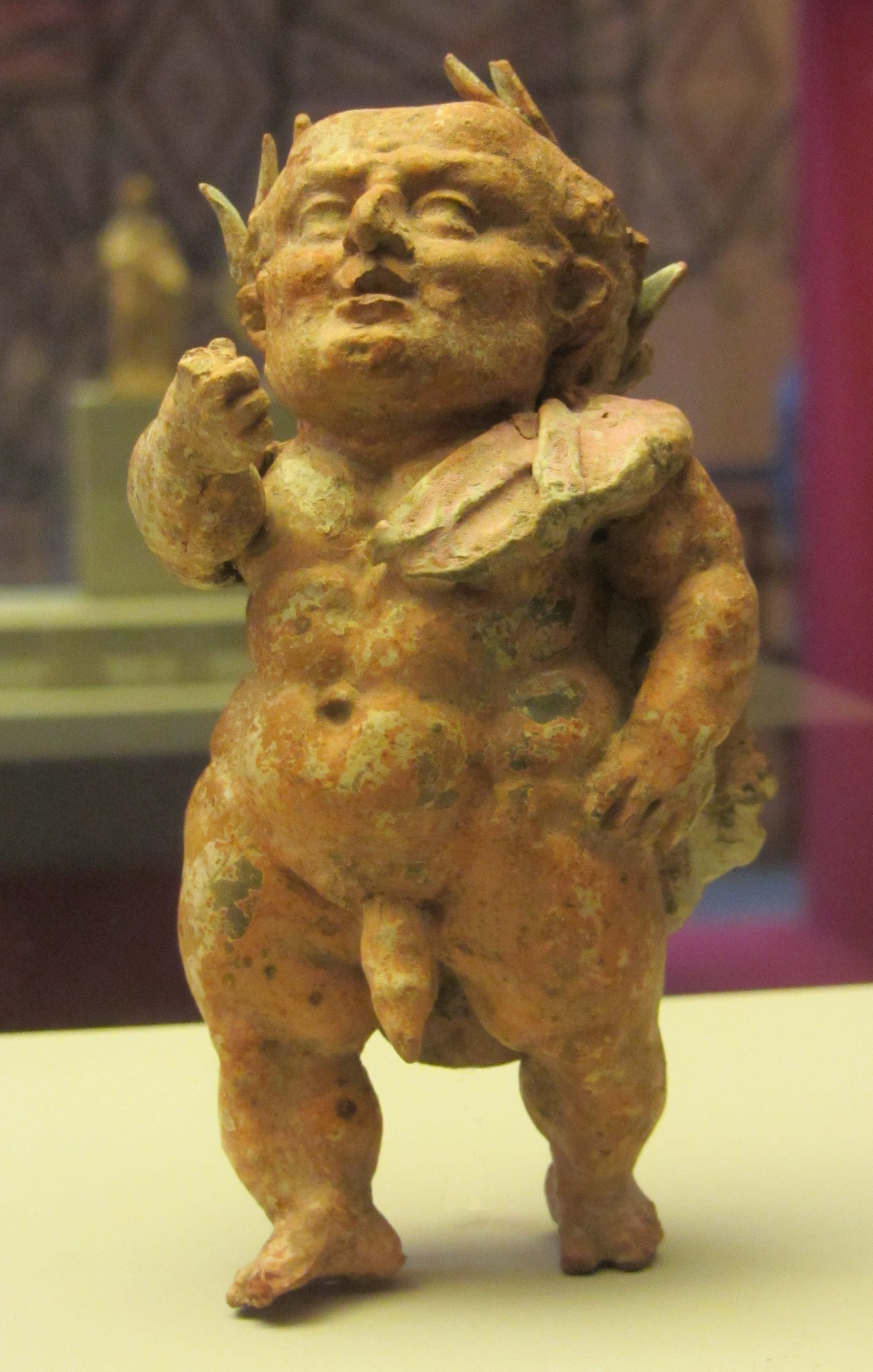 Grotesque, terracotta figurine made in Myrina, ca. 2nd-century BC.